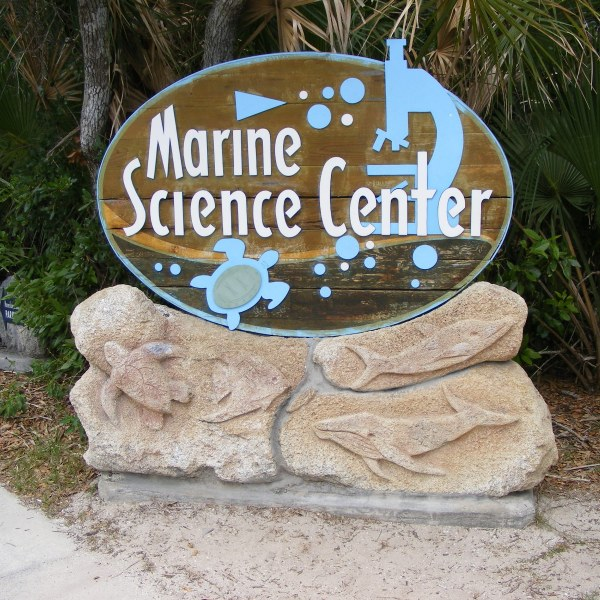 An entry sign to the Marine Science Center in Ponce Inlet, Florida. (WT-shared) Gamweb 10:37, 5 August 2008 (EDT).